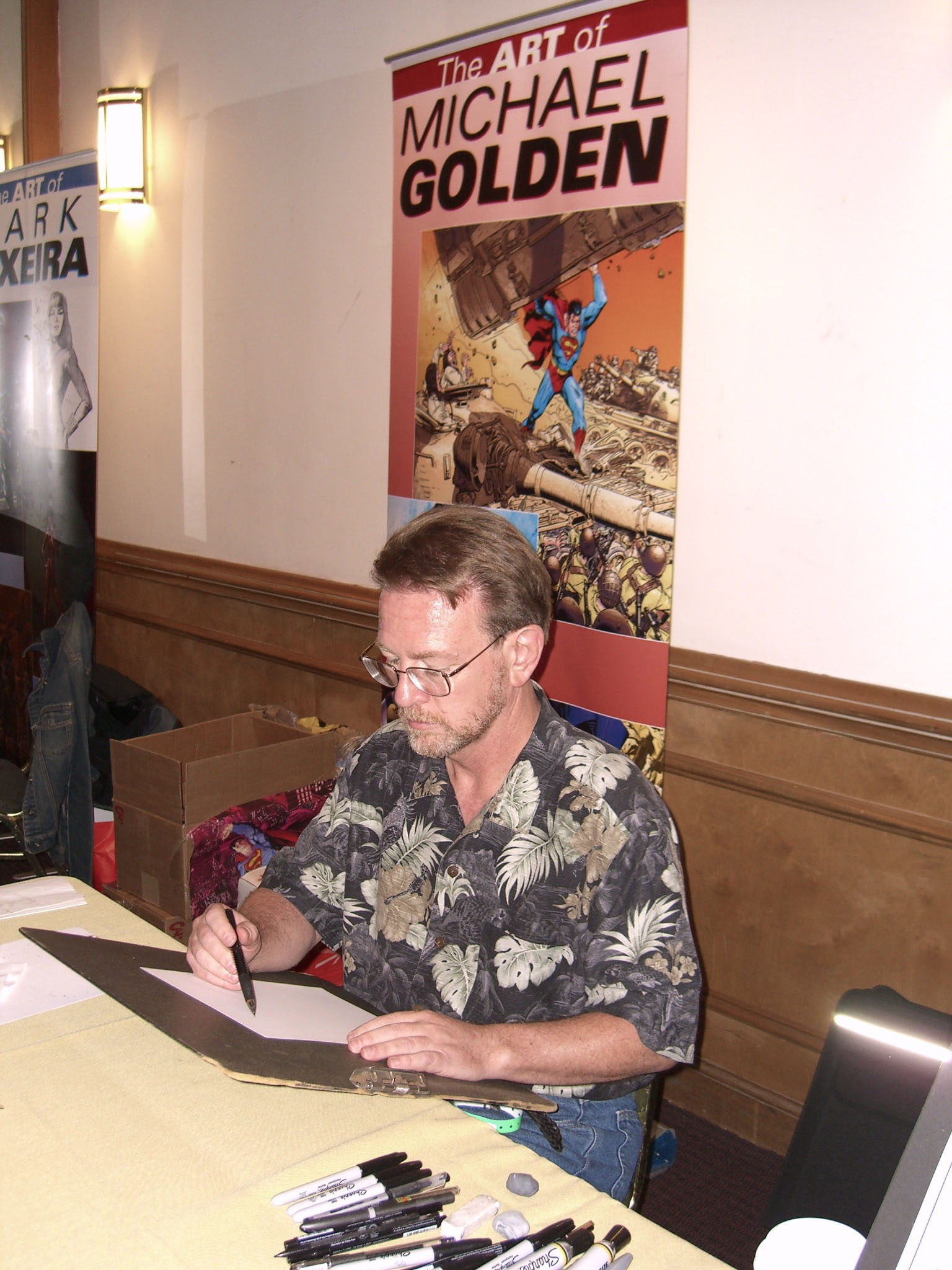 Comic book creator Michael Golden at the Big Apple Convention in Manhattan, October 2, 2010. Photo by Luigi Novi. This photo may be used, modified and published for any purpose, only if a easily visible credit to the photographer is placed near the photo in each instance in which it is used. (See licensing information below.) Publication of this photo without this proper attribution constitutes copyright infringement. For more information on my photos, you can contact me here.